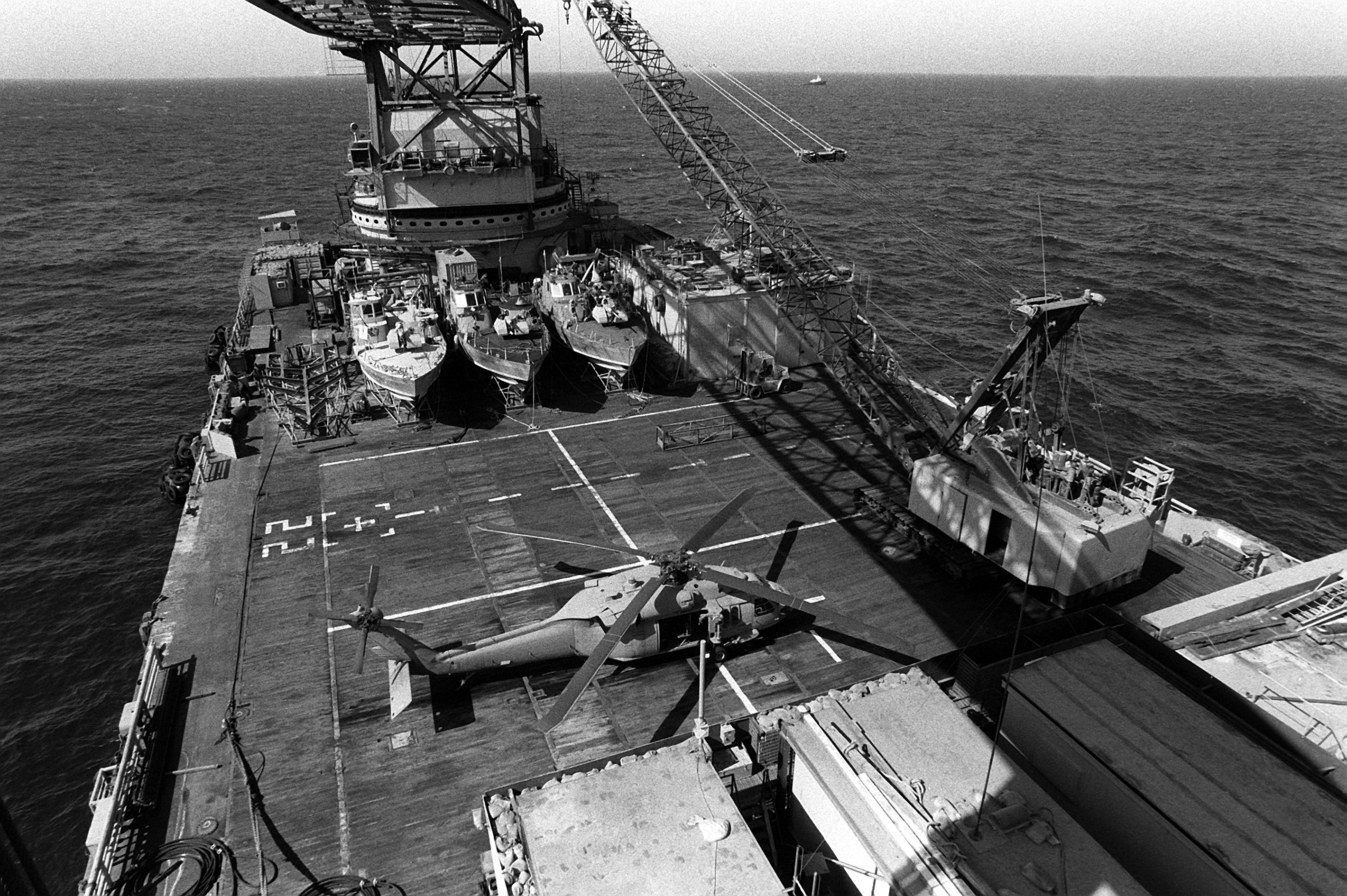 DN-SN-88-10159 - The crane aboard the barge Hercules prepares to lift a PB Mark III patrol boat into the water for a patrol. The 65-foot aluminum patrol boats work in pairs to monitor small boat activity in the Gulf. A specially-equipped U.S. Army UH-60 Blackhawk helicopter is parked on the helicopter pad.